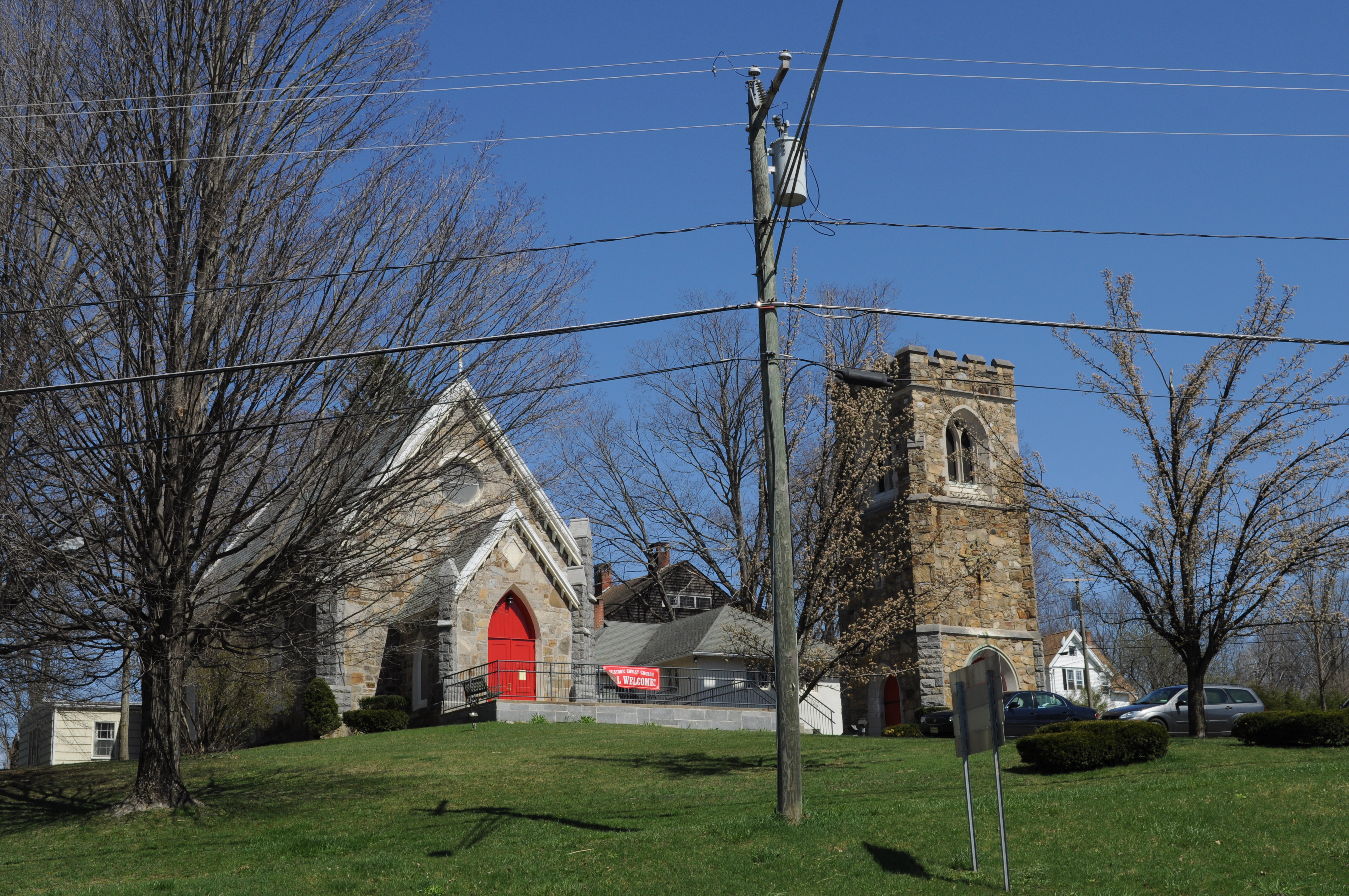 Christ Church, Canaan, Connecticut.